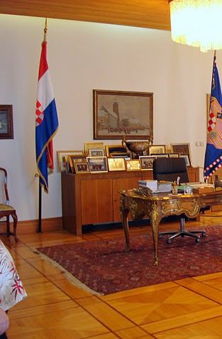 Presidential palace, Zagreb. Work cabinet.